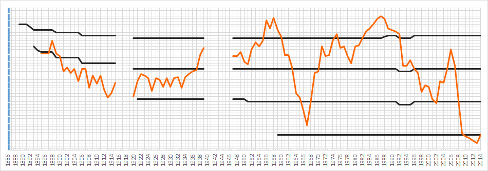 League Positions of Luton Town F.C..